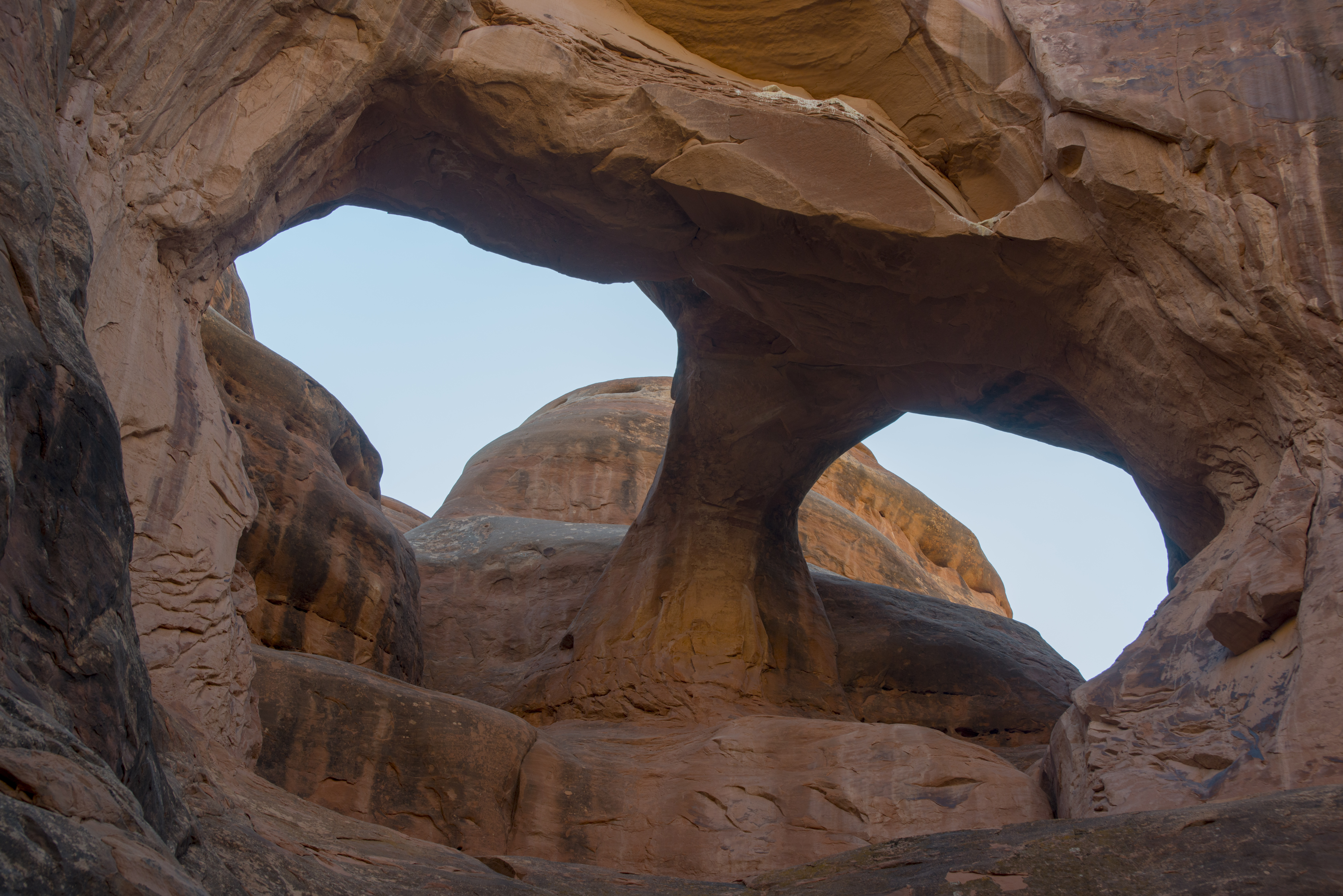 (NPS photo by Neal Herbert)